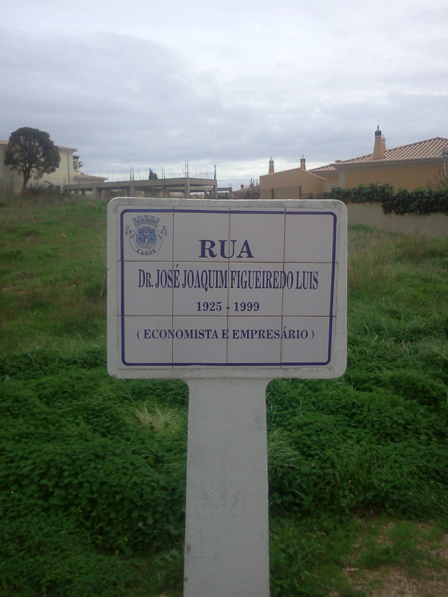 Street sign of Rua Dr. José Joaquim Figueiredo Luís, in the city of Lagos, in southern Portugal.